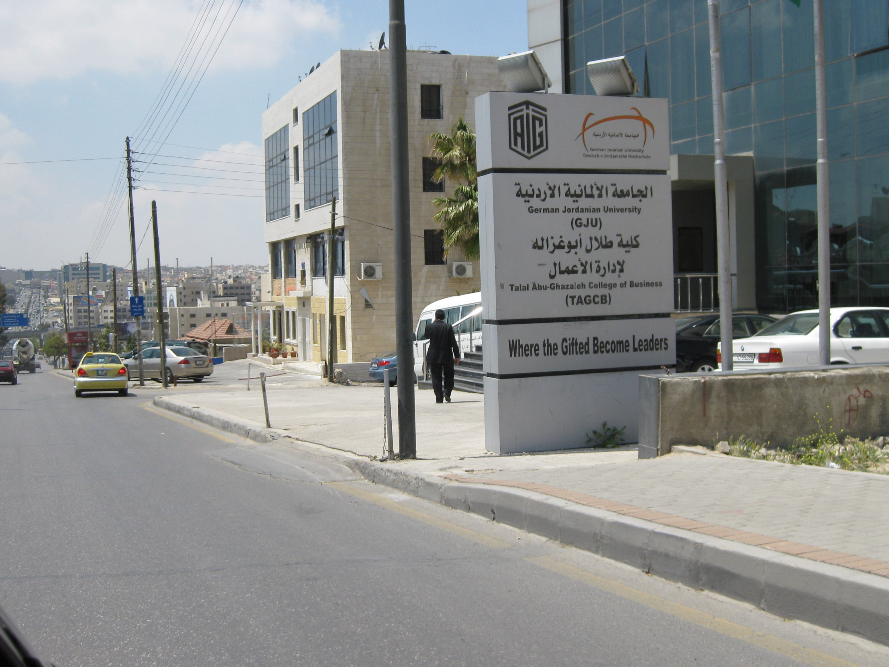 Talal Abu Ghazaleh College of Business (TAGCB)